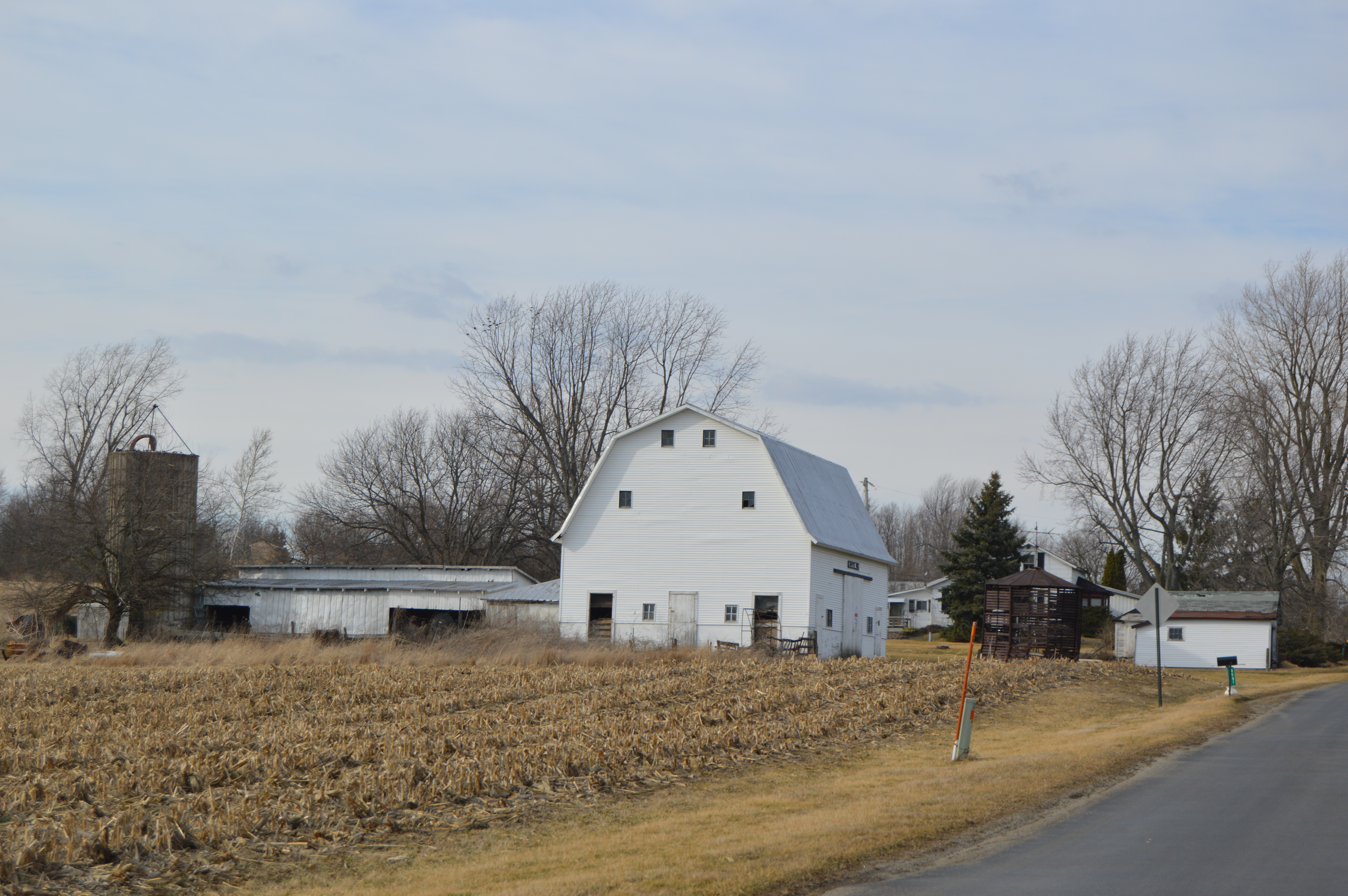 Buildings at a farmstead on Cable Road on the southern edge of Middletown in Wayne Township, Champaign County, Ohio, United States.